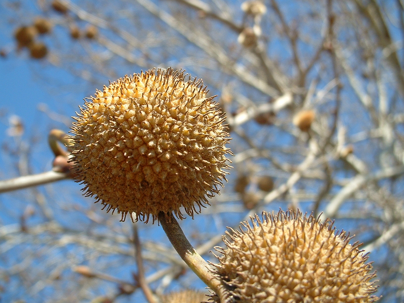 Fruit-body of Platanus orientalis (Oriental plane tree). Photographed on the bank of the channel of the Nahalei Menashe Water Project in Israel, just after the channel passes the Nahal Mishmarot dam.